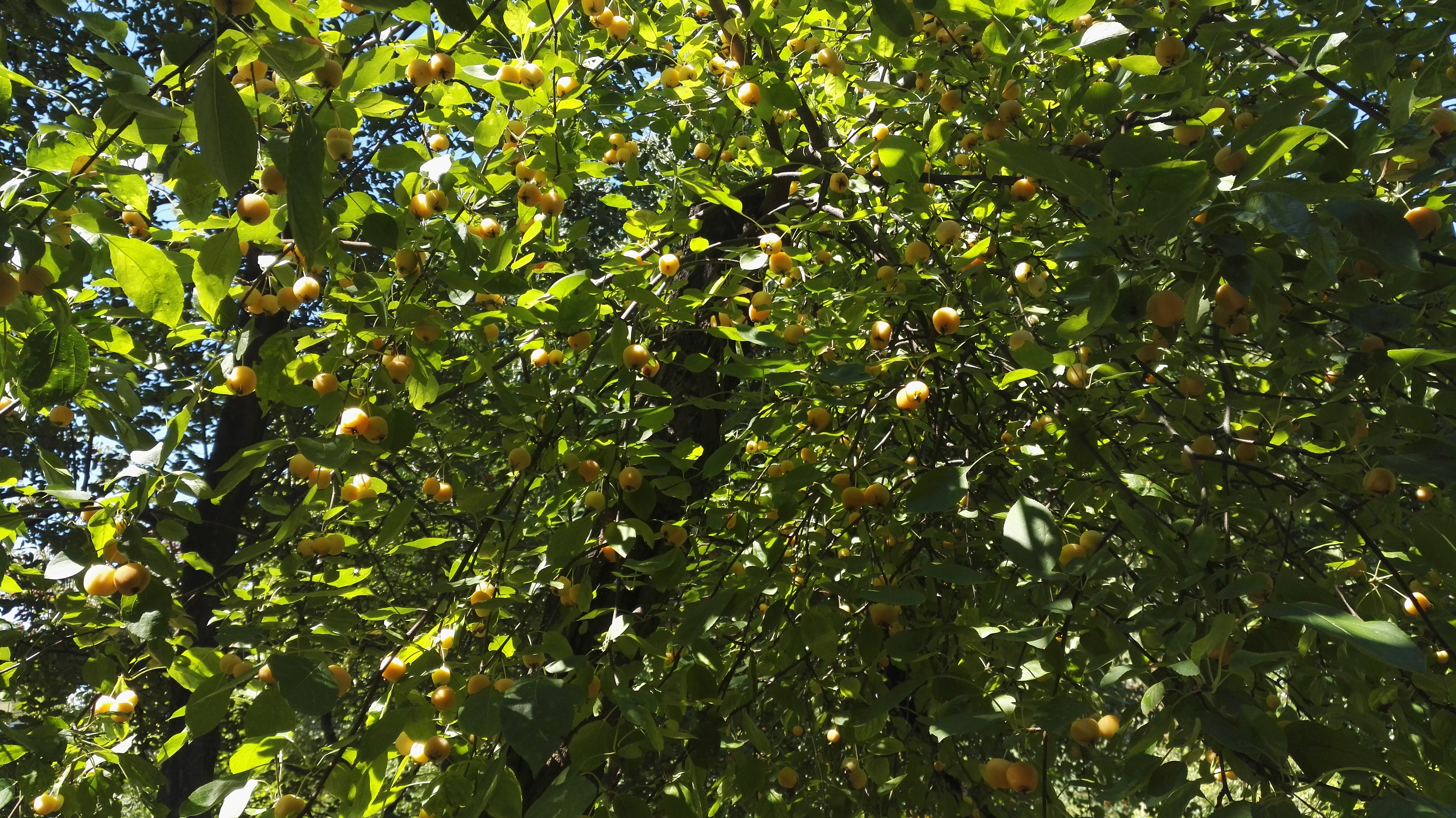 Malus spectabilis at ELTE Botanical Gardens